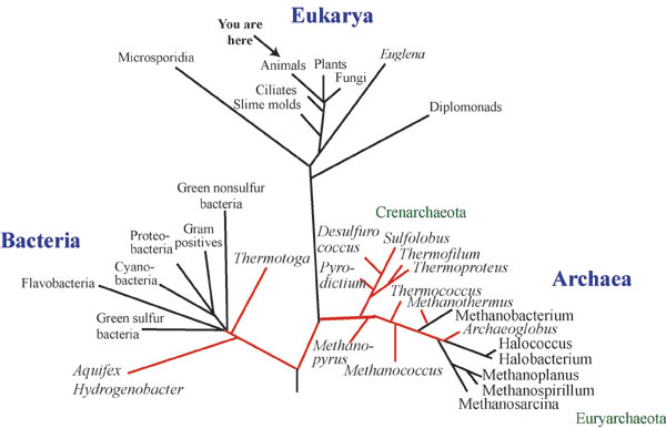 Αναπαράσταση φυλογενετικού δένδρου δίνοντας έμφαση στα βασίλεια Αρχαία , Βακτήρια και Ευκάρυα. Η ρίζα του δένδρου αντιστοιχεί στον κοινό πρόγονο των βασιλείων.